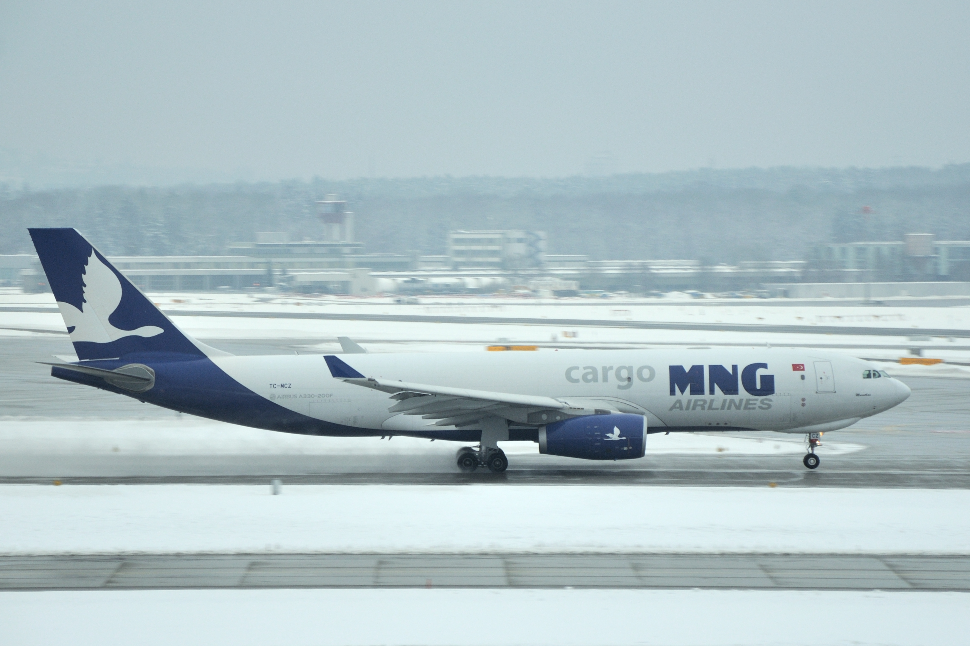 Switzerland, snowy morning at Zurich International Airport